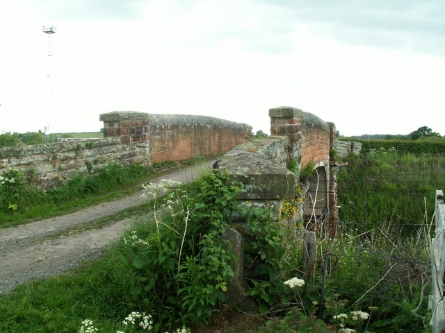 Bridge No 9 Over West Coast Main Line